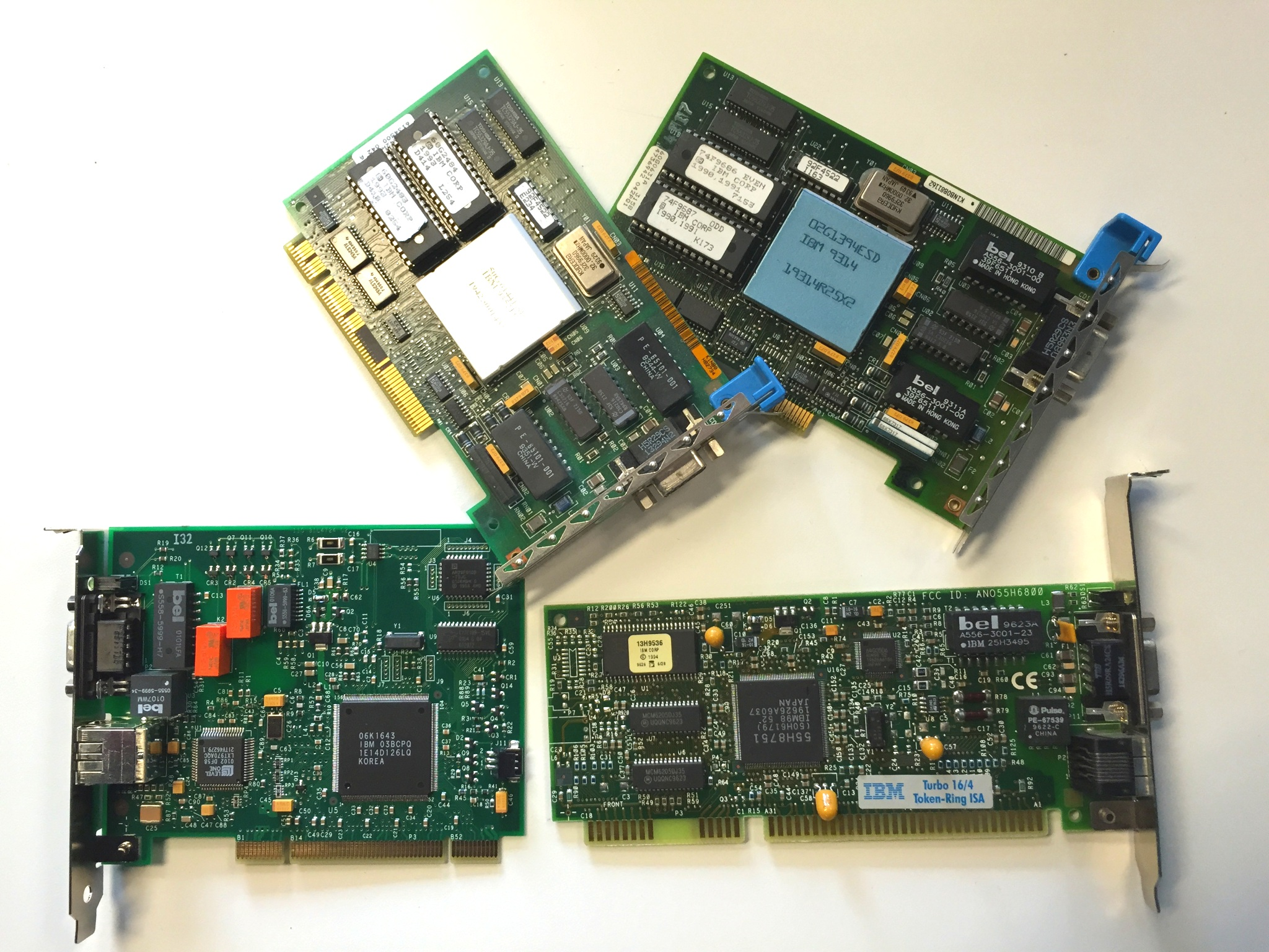 Four token ring cards with varying interfaces: ISA, PCI and MicroChannel.